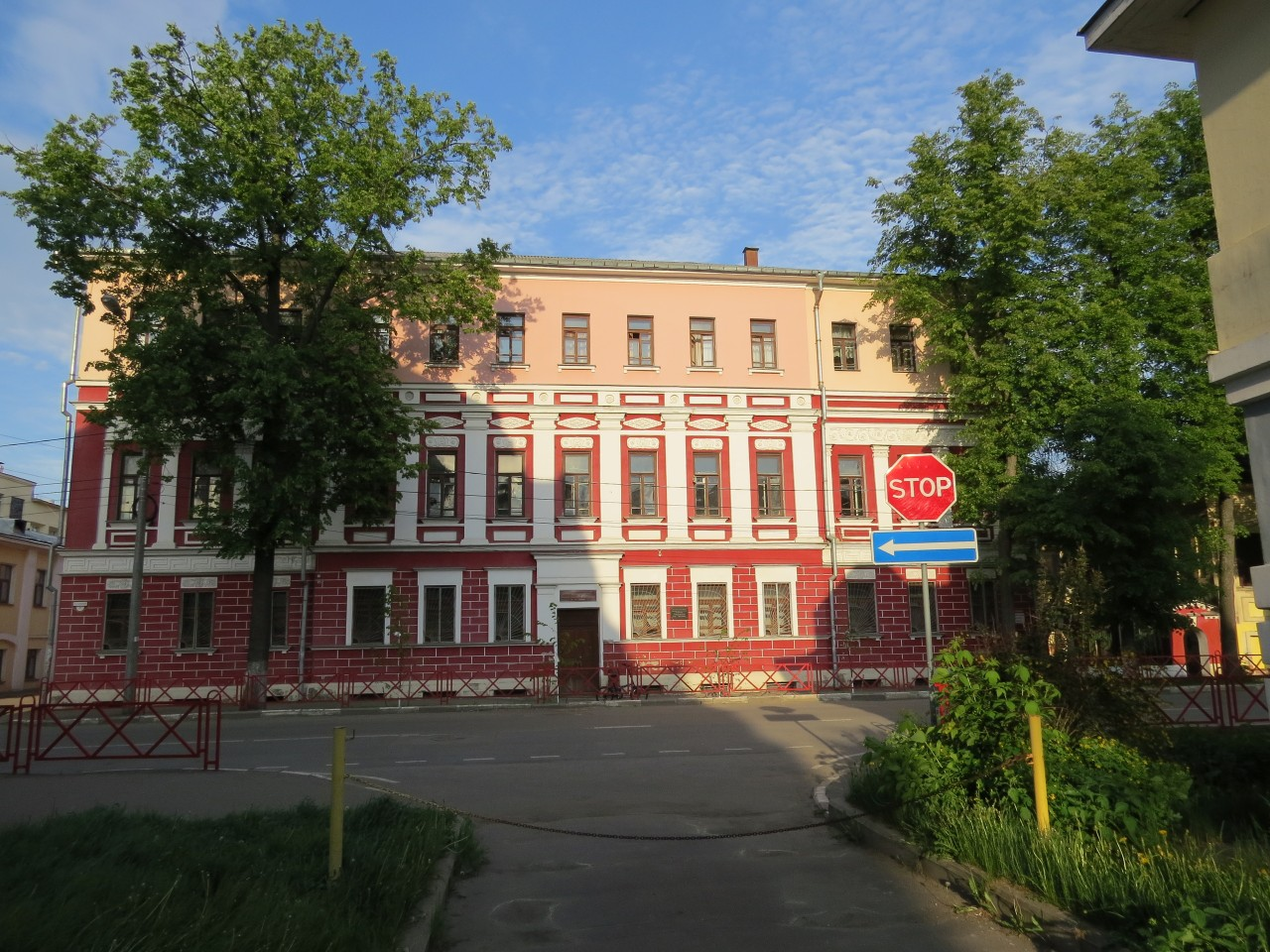 Yaroslavl College of Music named after L.V.Sobinov, front view photo, summer 2019